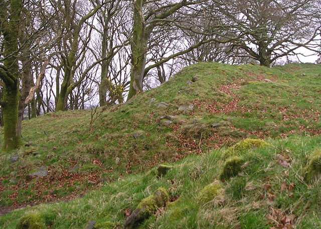 Craig-gwrtheyrn Camp The entrance and part of the ramparts of this iron-age hill fort.